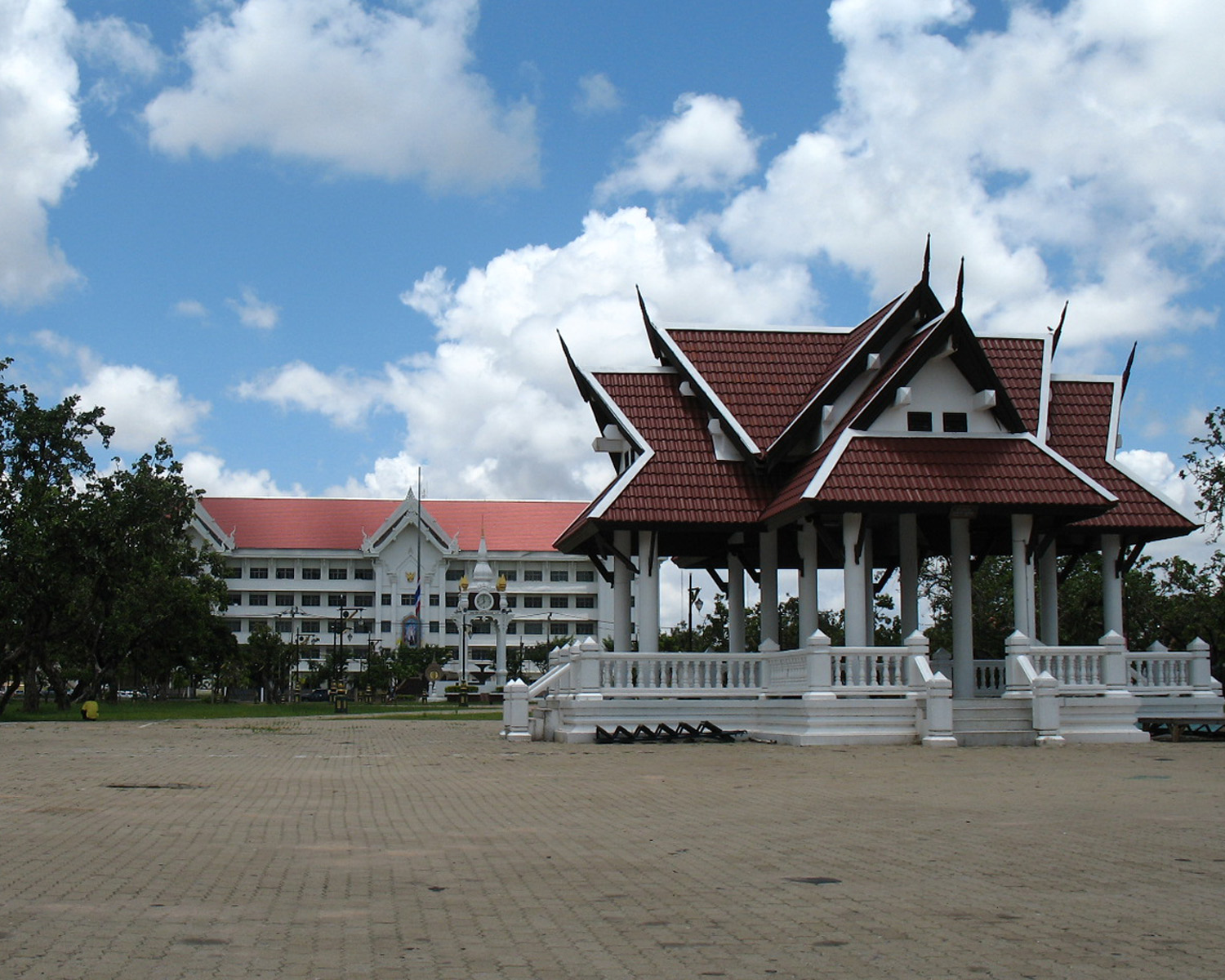 The Roi Et City Hall, view from the Phalan Chai pond.